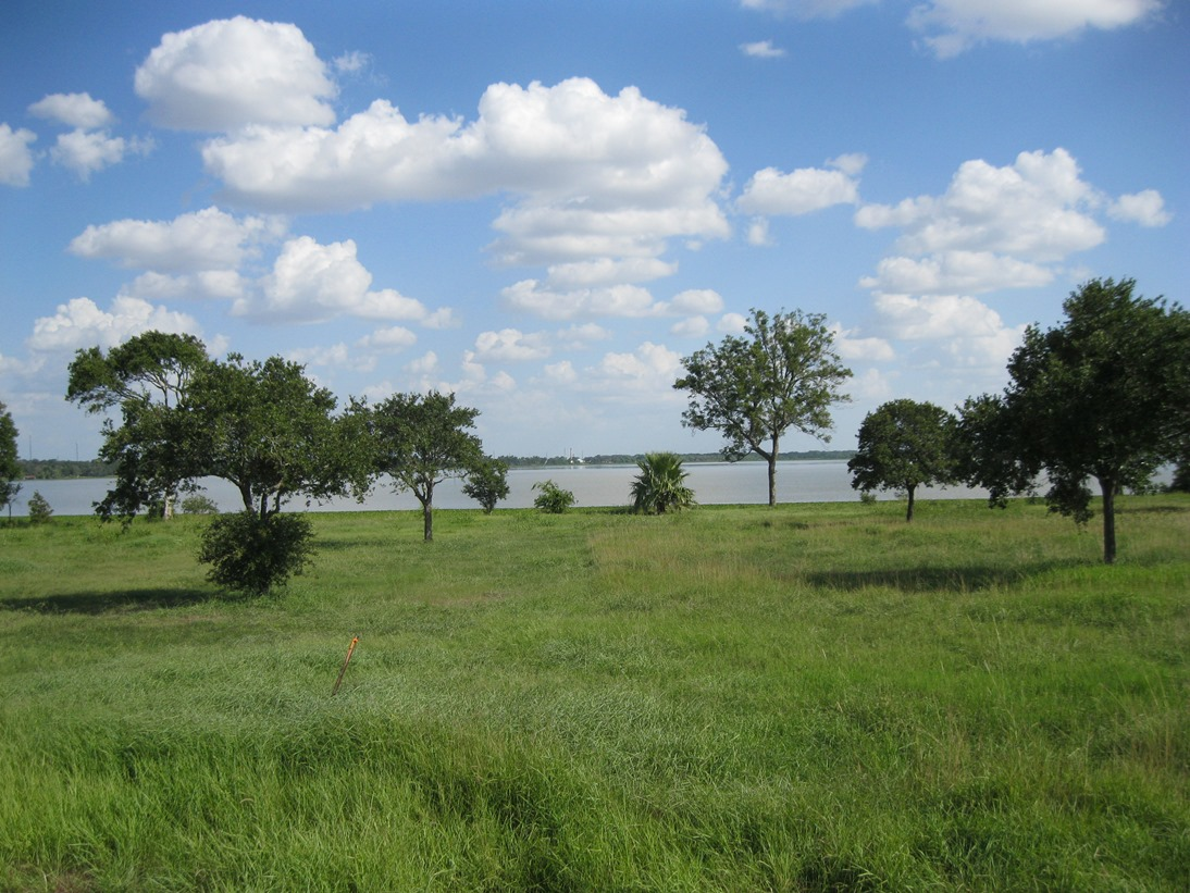 Photo shows Eagle Lake in Eagle Lake, Texas. View is to the south.